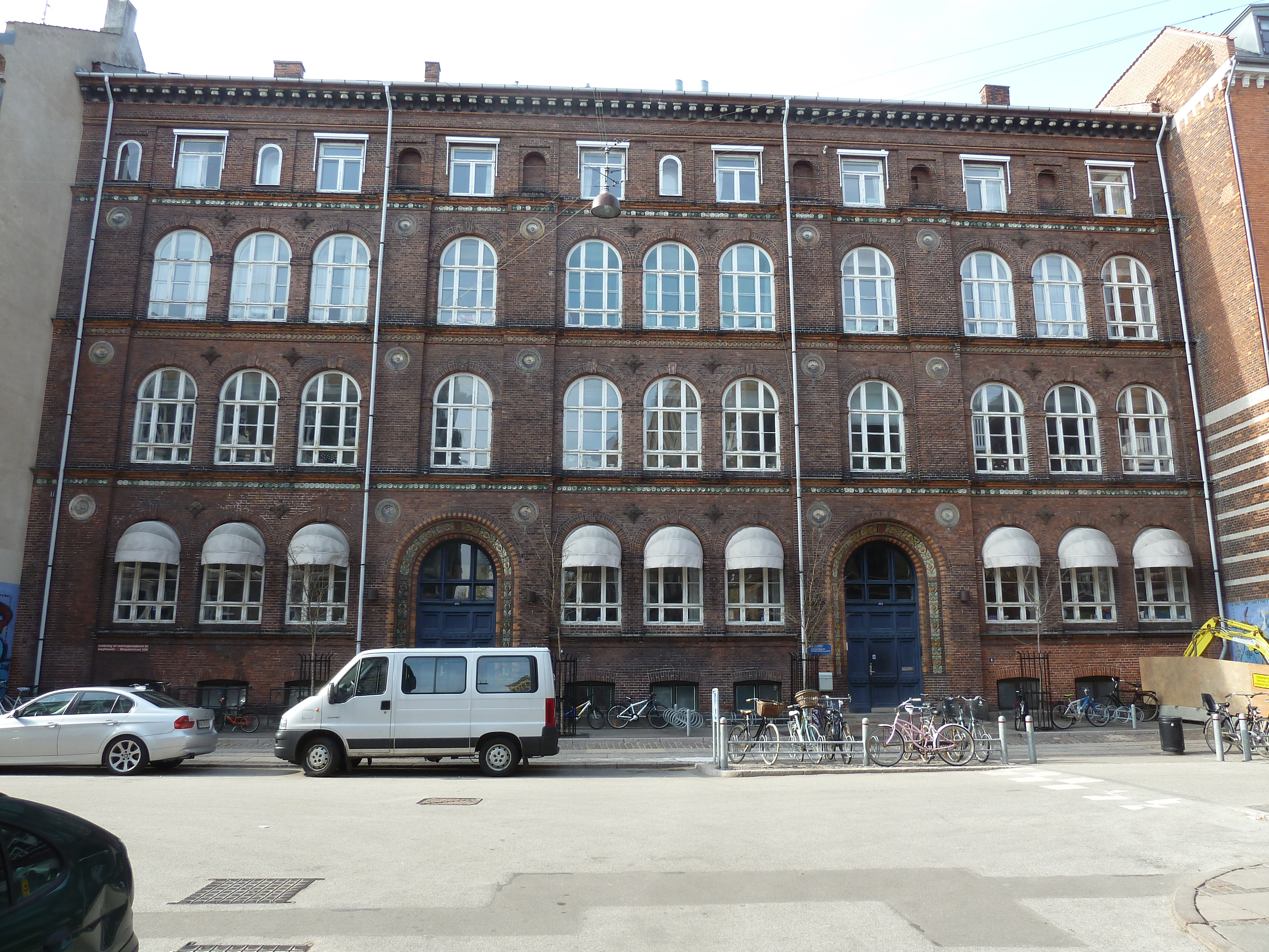 The former Ryesgades Skole at 101 Ryesgade in Copenhagen, Denmark